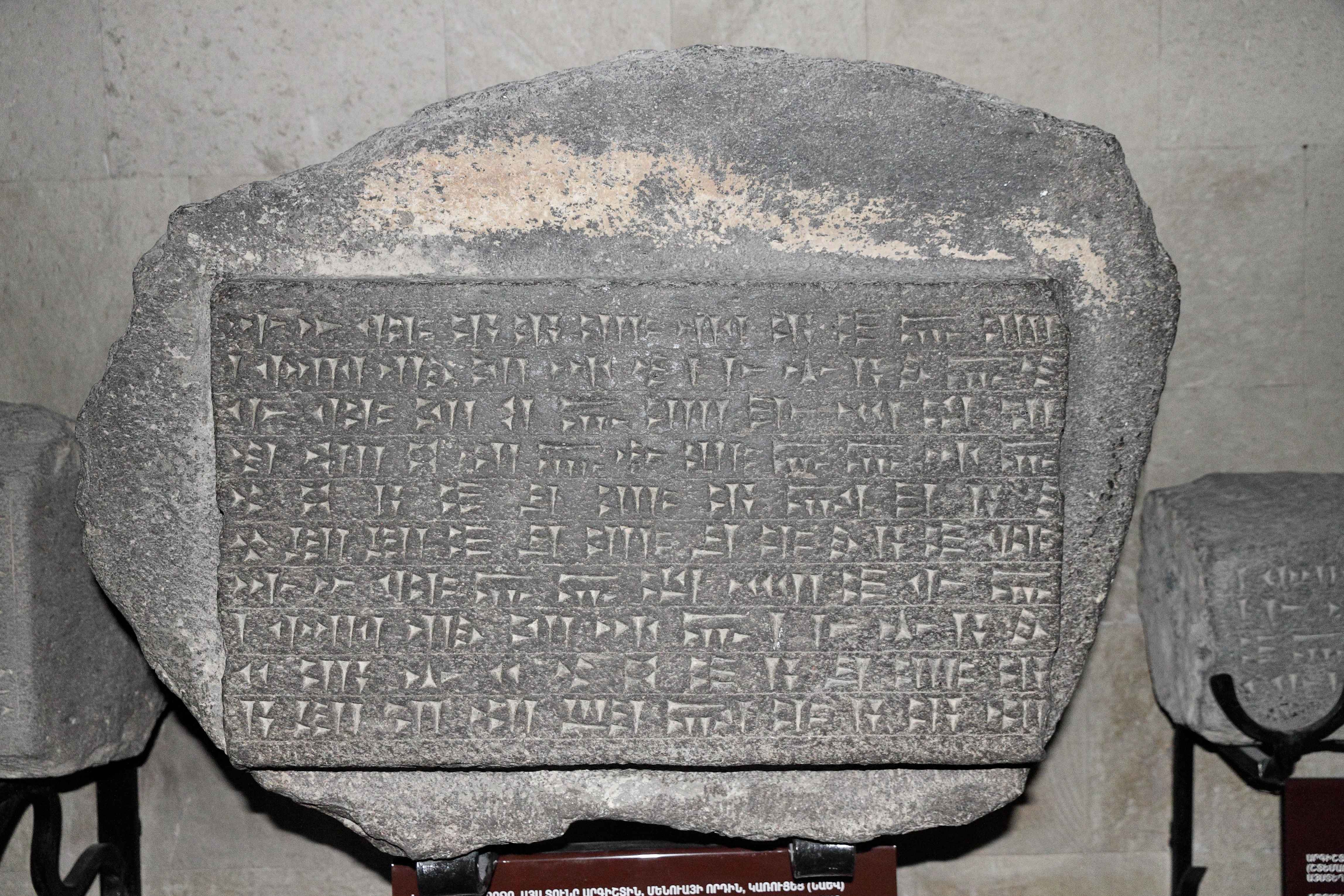 A stone tablet with cuneiform in Urartian language. Erebuni Museum. Erebuni District. Yerevan, Armenia.